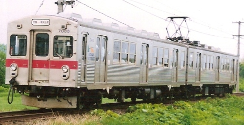 Konan Railway 7000 Series Train.